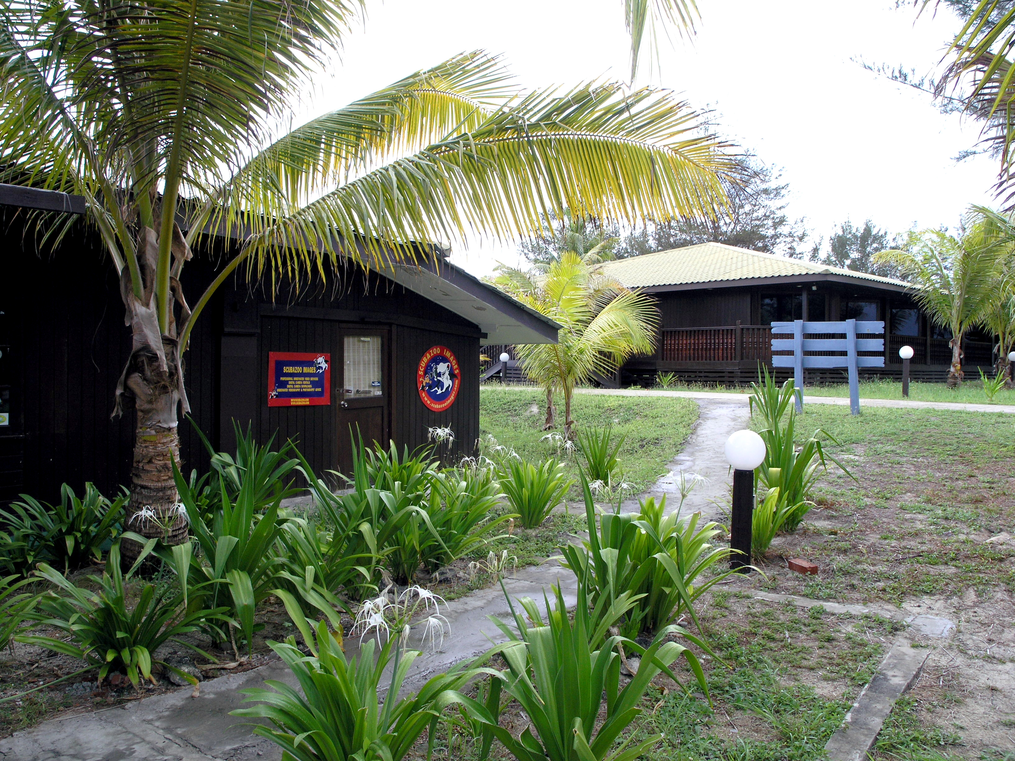 Swallow Reef (Pulau Layang-Layang) in Spratly Islands, South China Sea